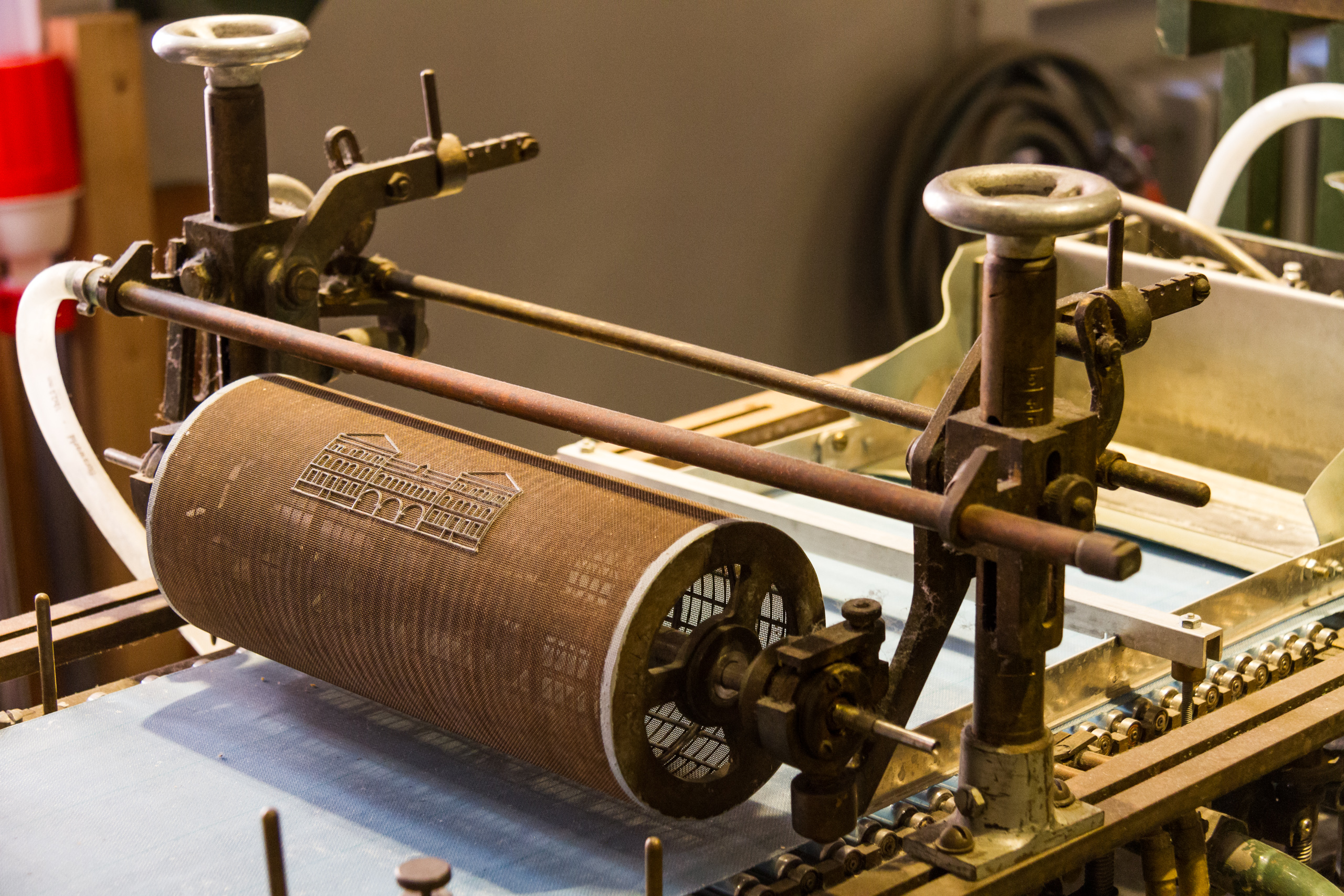 Dandy roll with watermark design on it, Deutsches Technikmuseum, Berlin, Germany